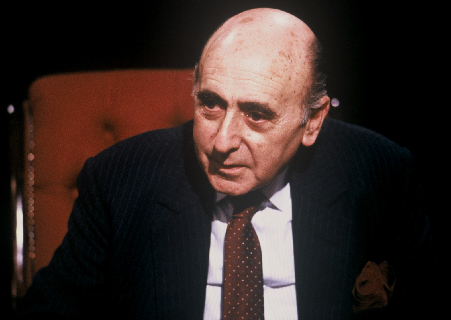 David Napley appearing on After Dark, 19 February 1988. Other guests included Colin Woods, Eileen Gray, Martin Short and T. Dan Smith. More here.